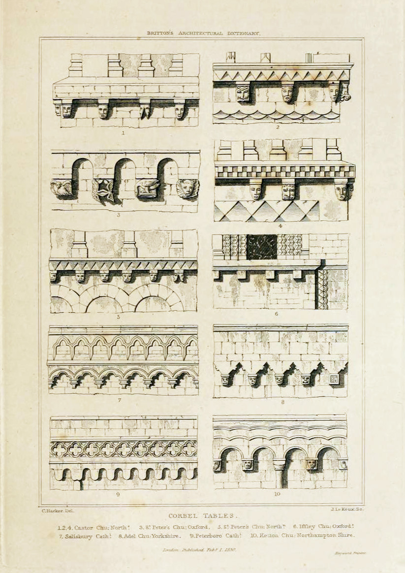 medieval corbel-tables and Lombardy friezes